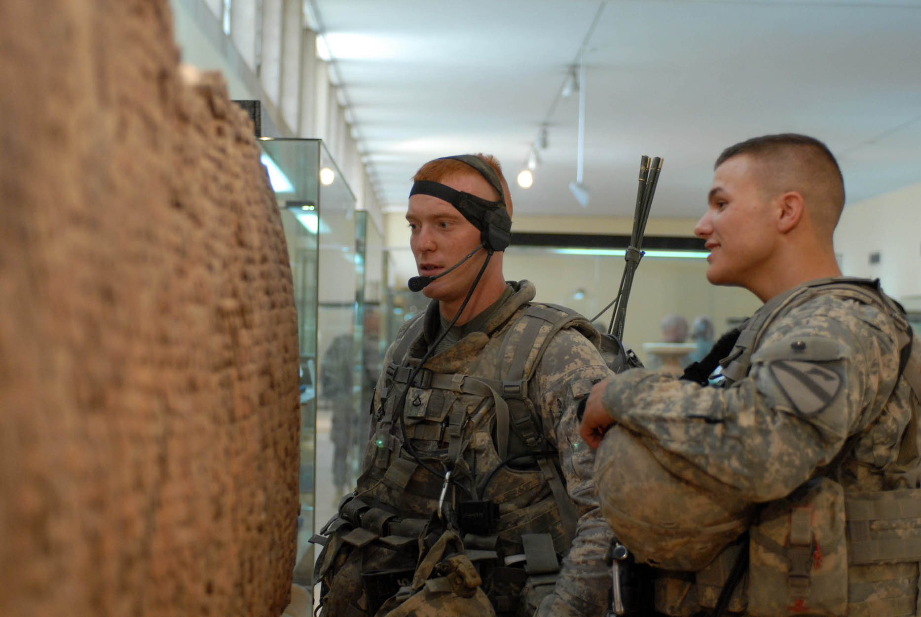 Eaton Rapids, Miss., native, Pfc. Daniel Owen (left), a radio telephone operator, and Madison, Ala., native, Pfc. Zachary Goff, both in B Company, 2nd "Lancer" Battalion, 5th Cavalry Regiment, 1st Brigade Combat Team, 1st Cavalry Division, discuss a piece of art on display during their visit to the Iraqi museum, Aug. 12.